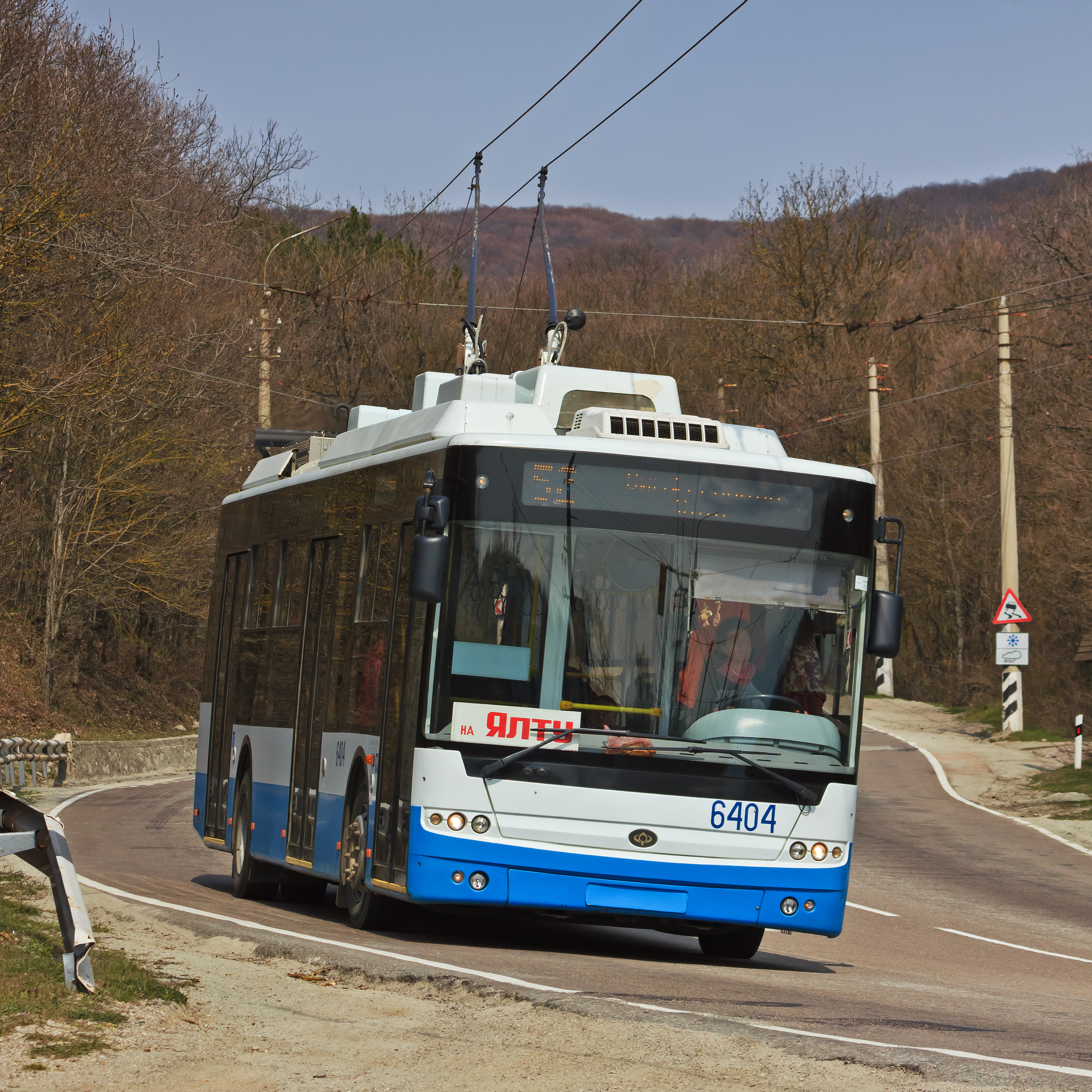 An interurban trolleybus on the way from Simferopol to Yalta (Bogdan T601 of Krymtroleybus), between the Angarsky Pass and the town of Alushta. Crimean Peninsula.